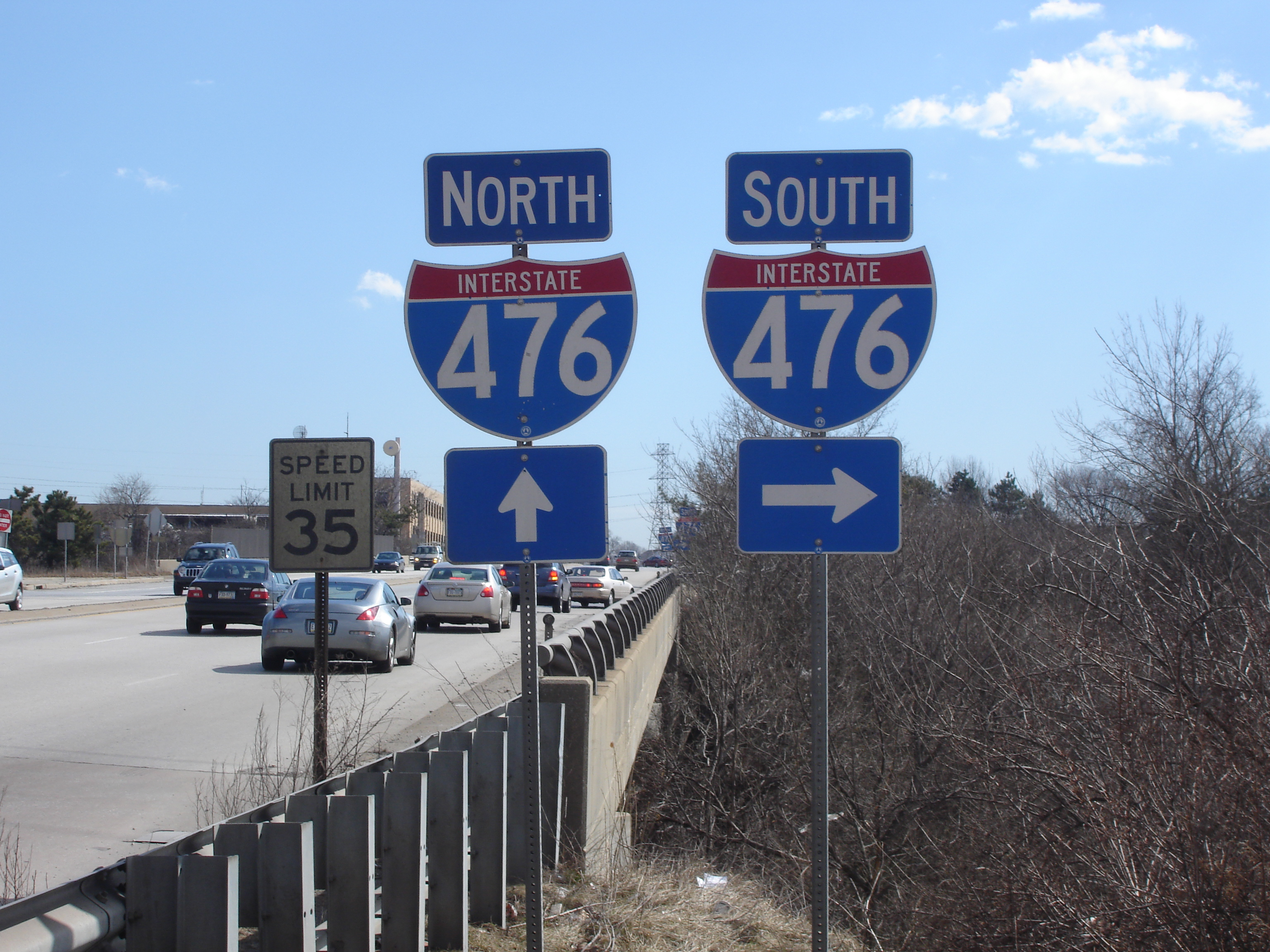 I-476 signs on Ridge Pike outside Norristown